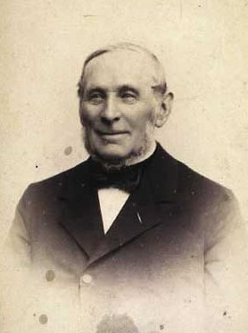 Jørgen Christian Hauberg (1814-1899), Danish pharmacist